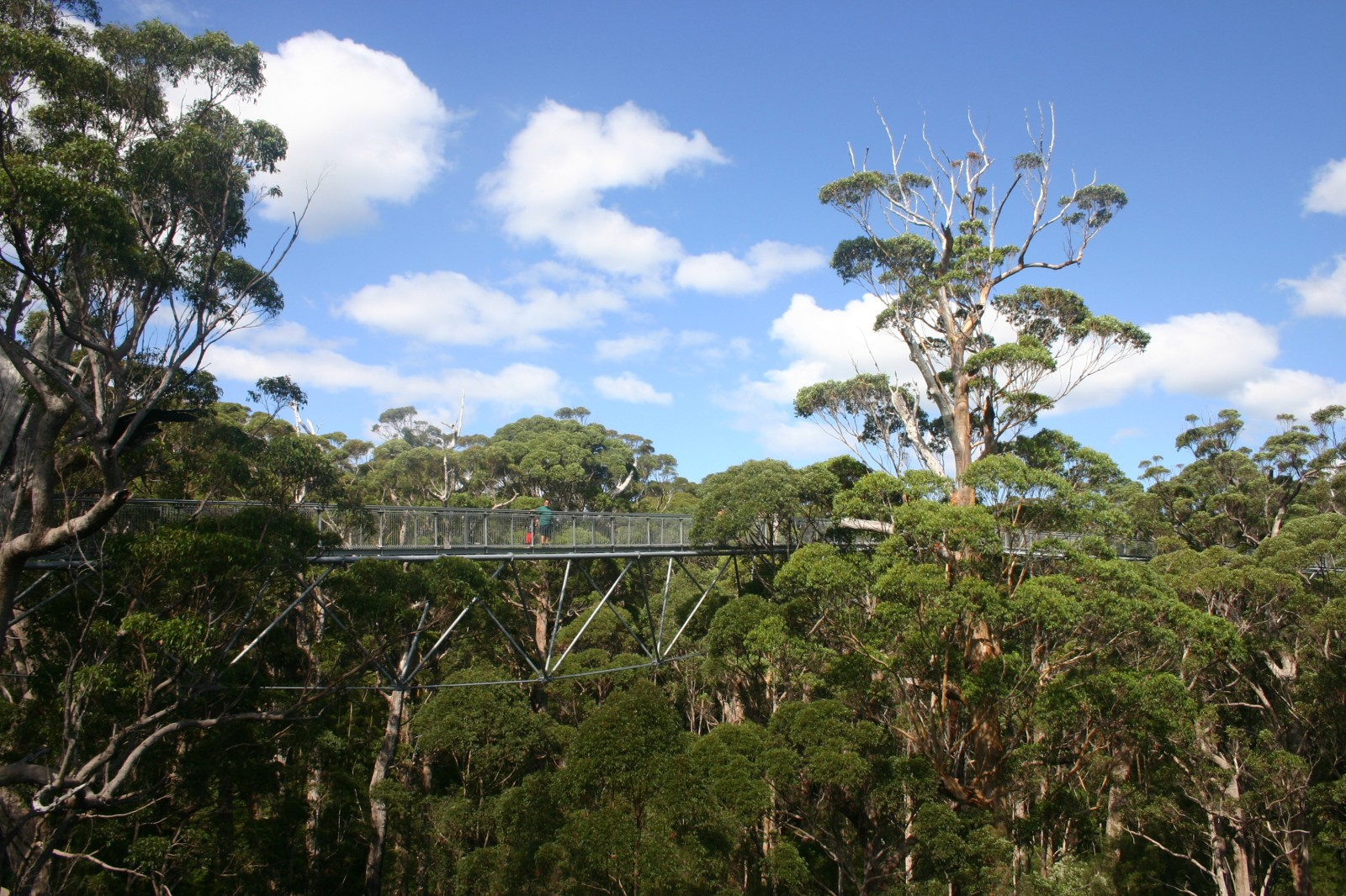 I took this photo on 14 April 2006 in the Valley of the Giants, Walpole-Nornalup National Park Takver - Released under GNU FDL